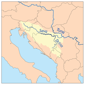 This is a map of the Sava River watershed